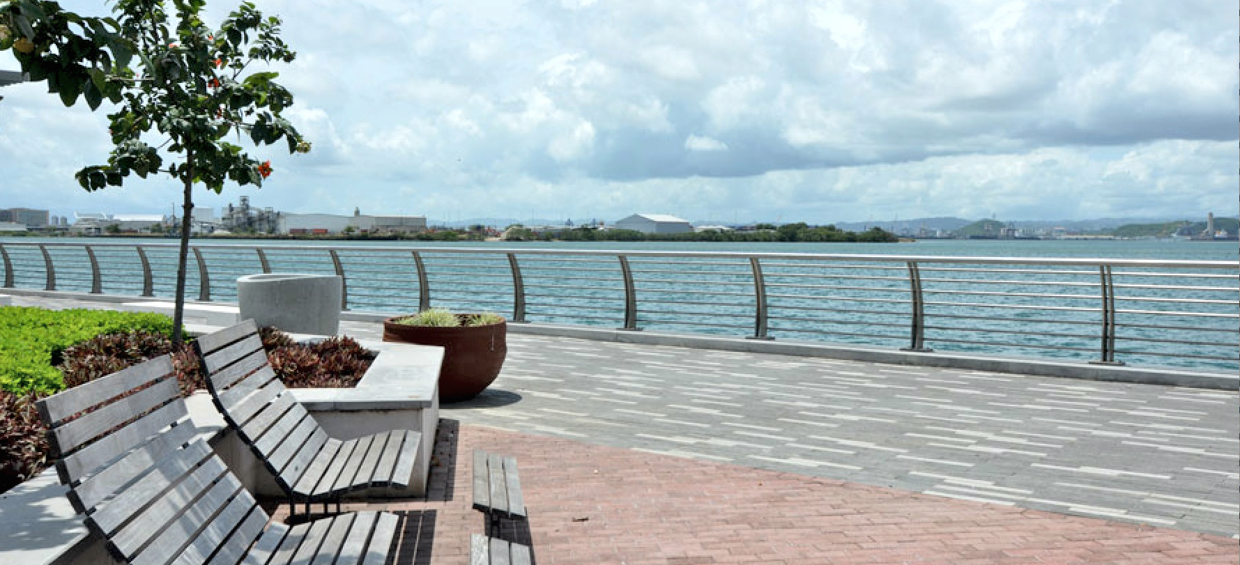 San Juan Bay, View from the Pathway in Muelle 8 (San Juan, Puerto Rico)